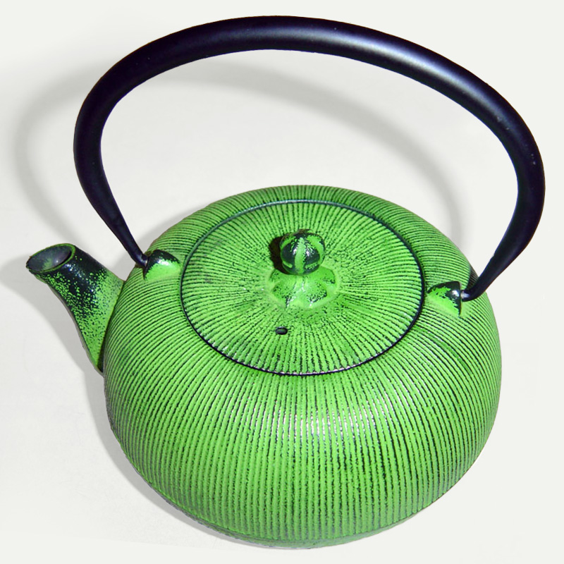 Tetsubin is a Japanese kettle. This Tetsubin's color is not a standard in traditional.